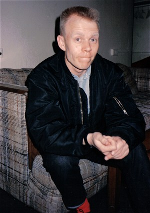 Vince Clarke in the dressing room (for an interview) at Wolfgang's nightclub in San Francisco, California - 1986